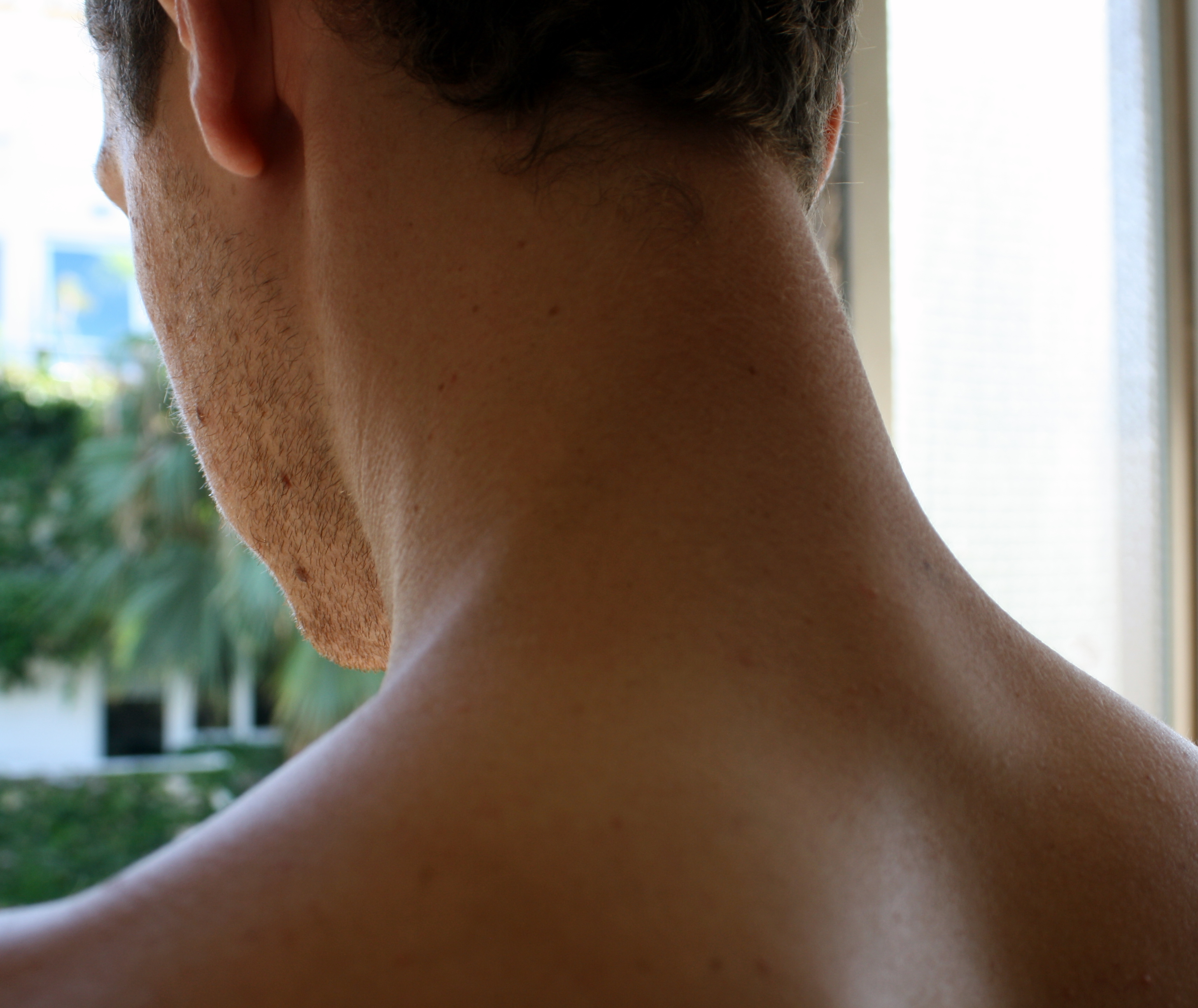 man's nape